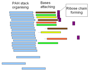 Self made drawing of the PAH world assembly hypothesis.